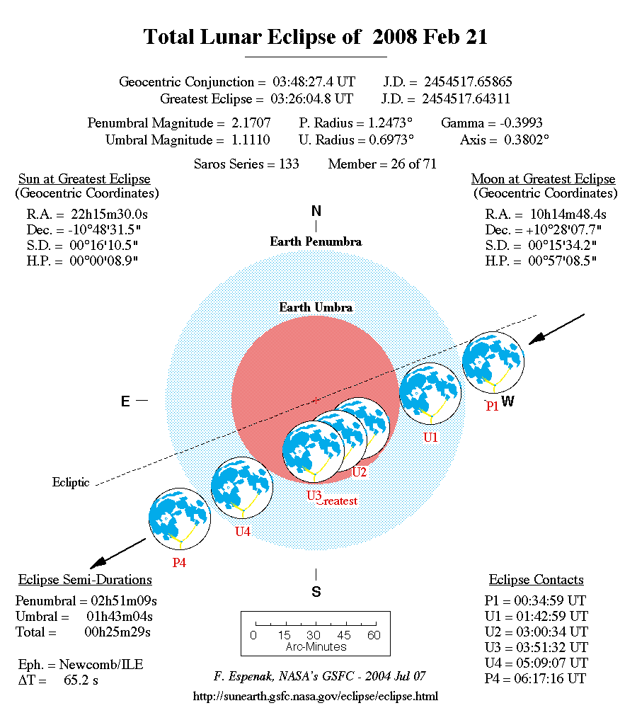 Sketch of the 2008-02-21 lunar eclipse.